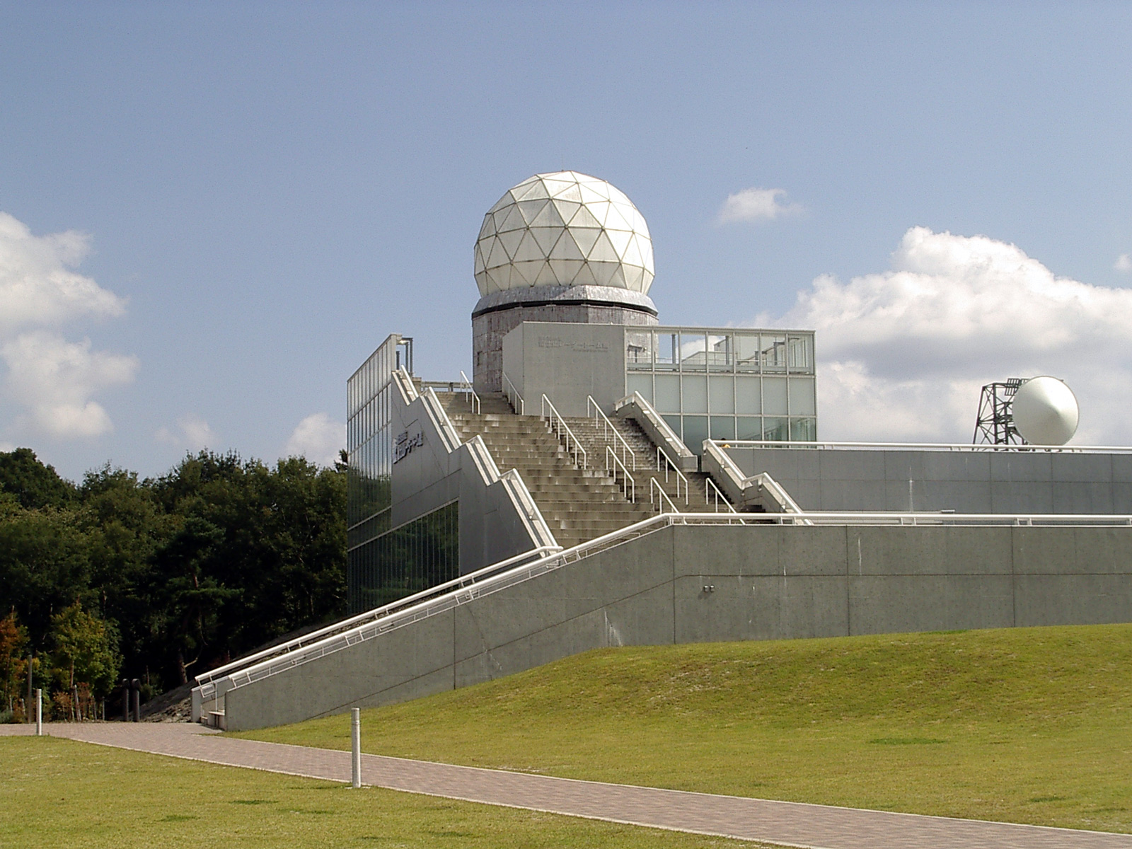 The radar dome for meteorological observation at the summit of Mt.Fuji, Japan. The dome was used since 1963 until 2000. The dome was moved to the foot of the mountain in Fujiyoshida, Yamanashi in 2004. I took this picture at Fujiyoshida in 2006. 1963年から2000年まで富士山頂で気象観測をしていた富士山レーダードーム。2004年に麓の山梨県富士吉田市へ移された。 2006年に富士吉田で撮影しました。